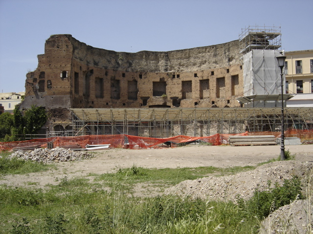 The Baths of Traianus and the grounds over the Domus Aurea, Rome, Italy.